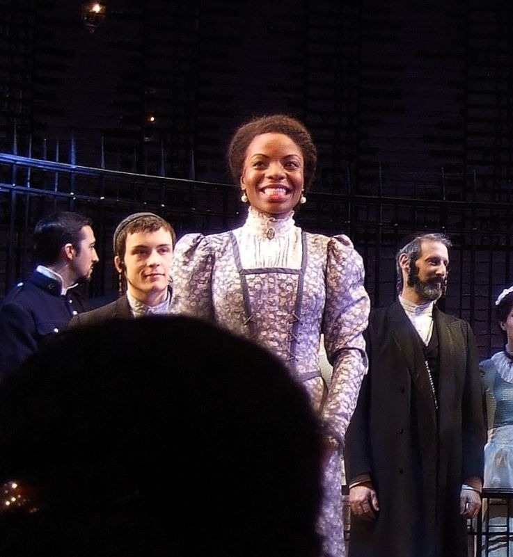 L to R Gerry Bamman (Duke of Venice) Marsha Stephanie Blake (Nerissa) Isaiah Johnson (Prince of Morocco) Jesse L. Martin (Gratiano)